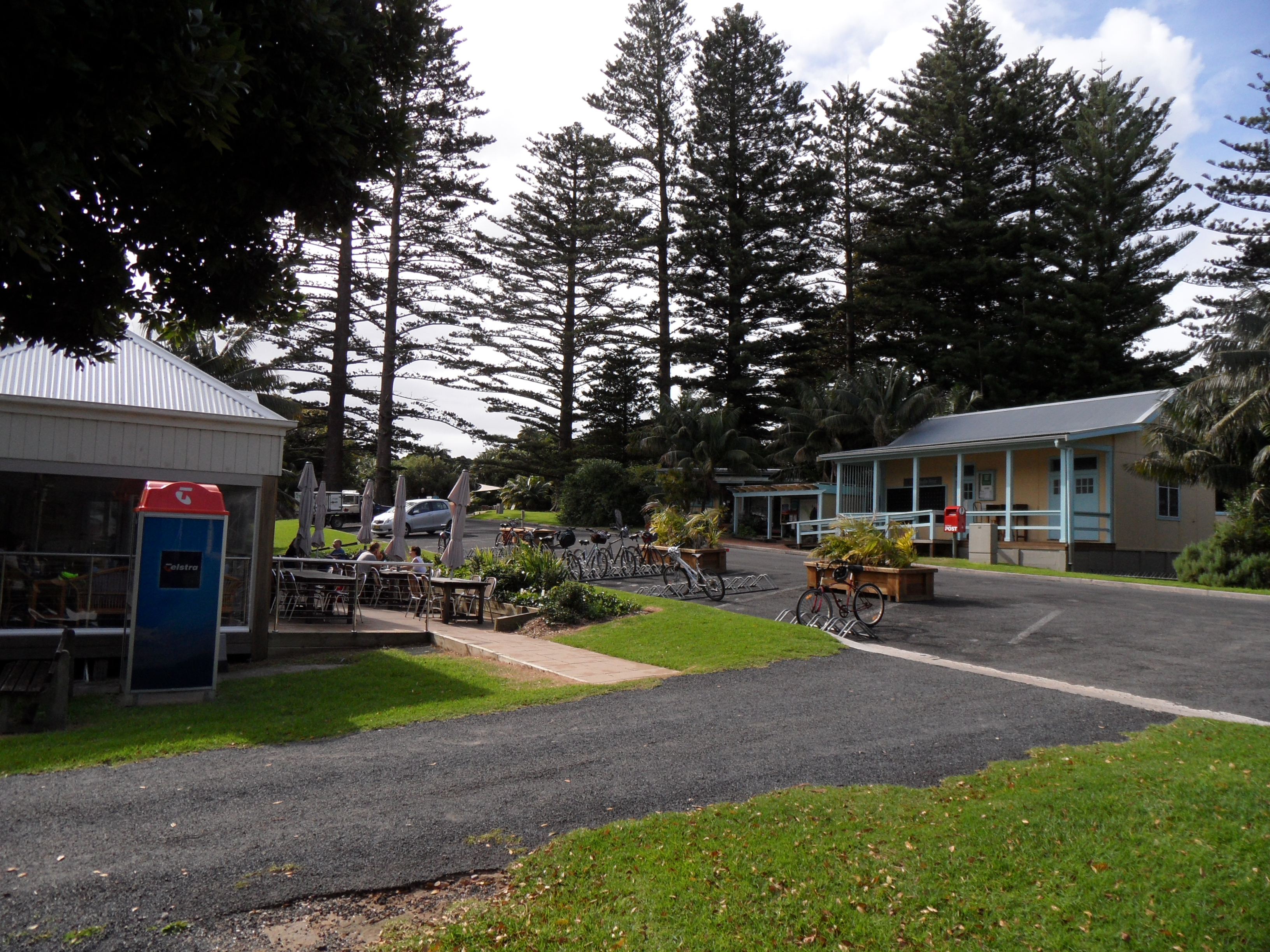 Shopping Centre Ned's Beach Road Lord Howe Island June 2011